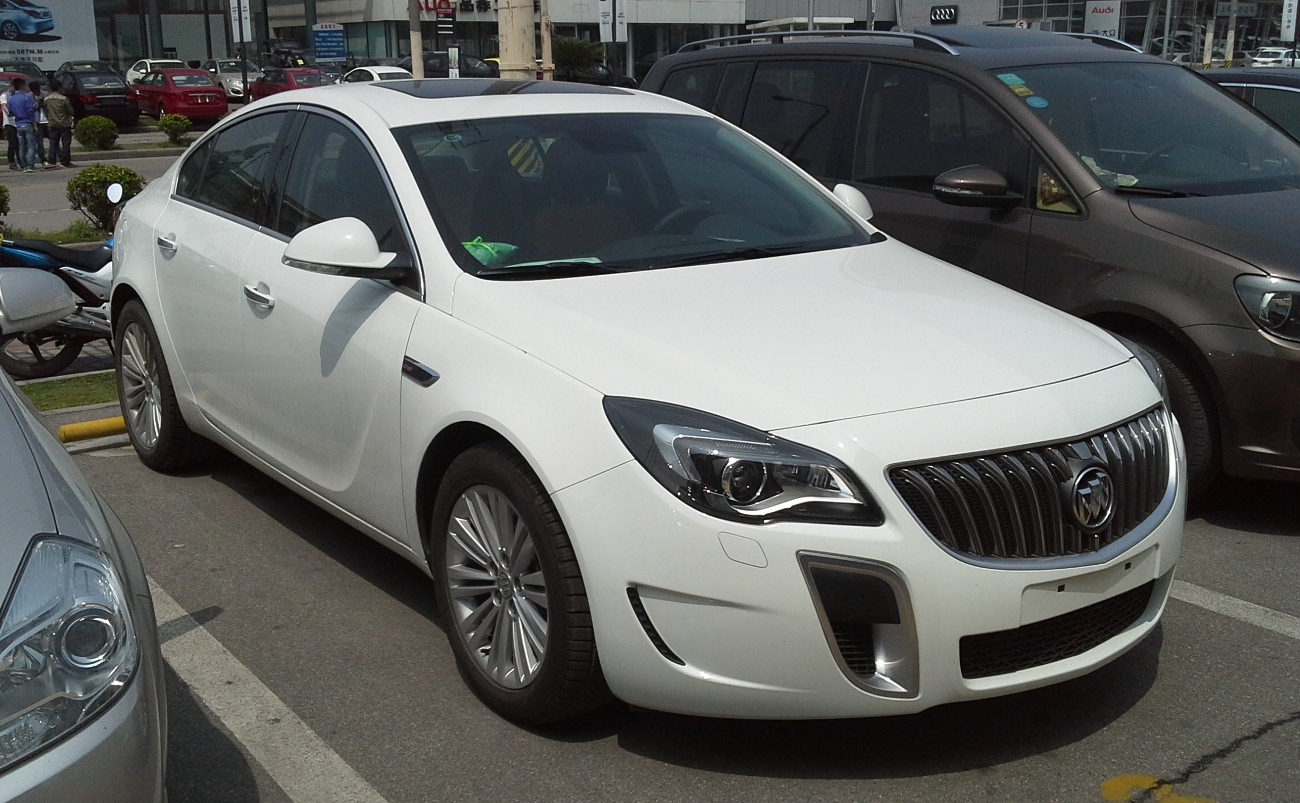 Buick Regal CN II GS facelift photographed in Shanghai, China.